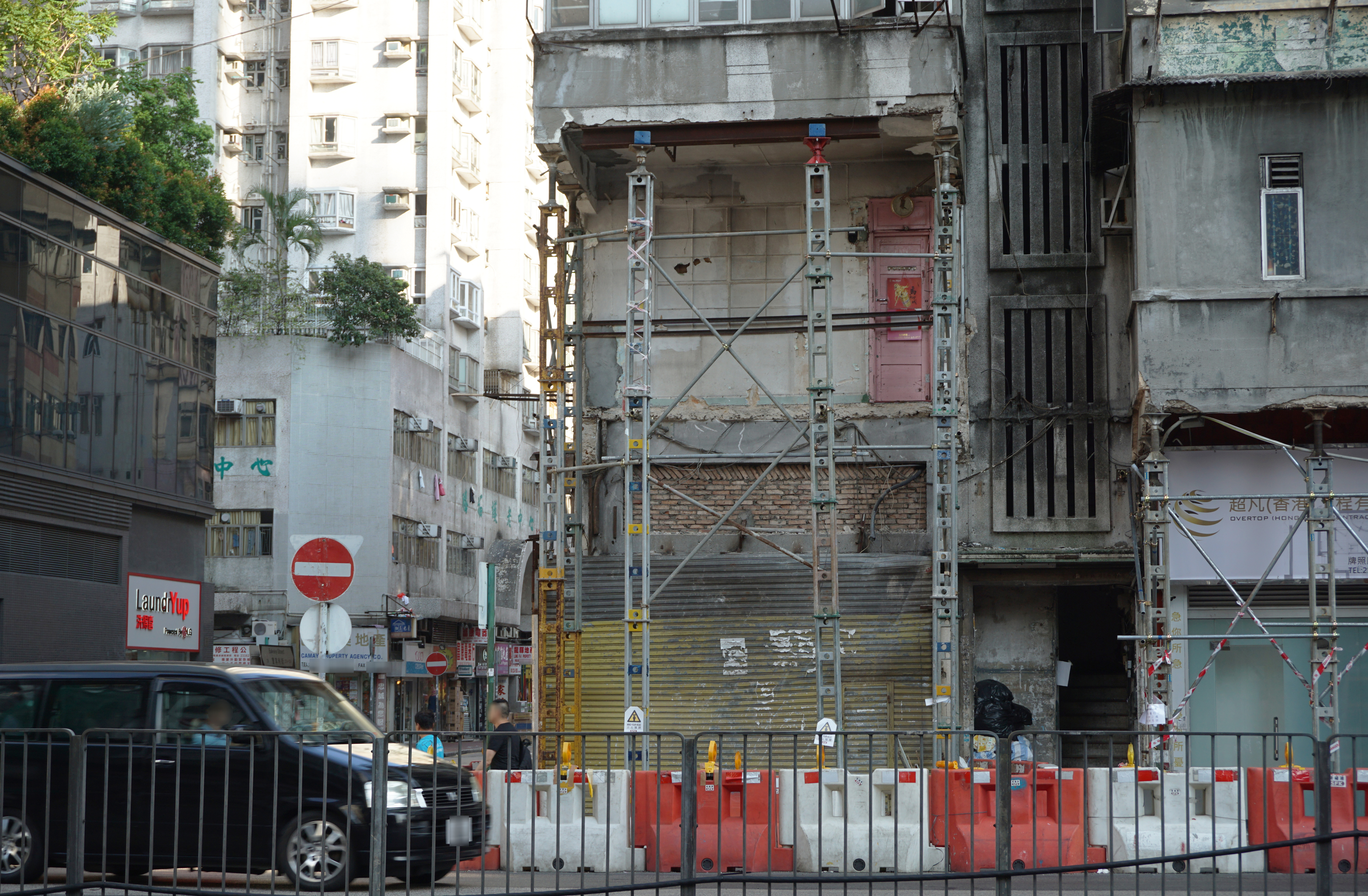 Canopy in Hung Hom, Hong Kong.